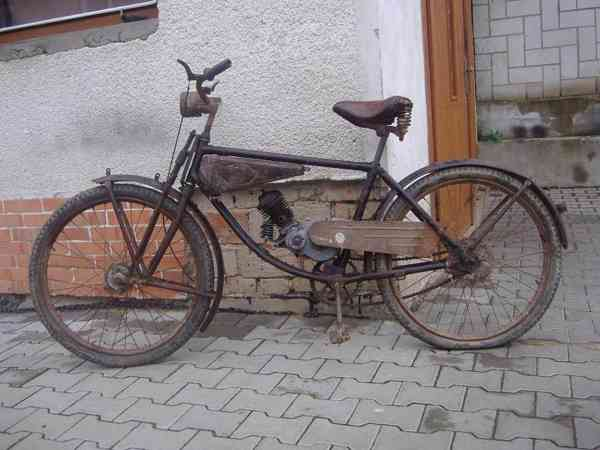 ČZ 98 (first type)